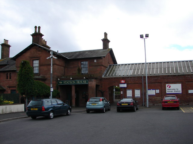 Annan Station, Dumfries and Galloway